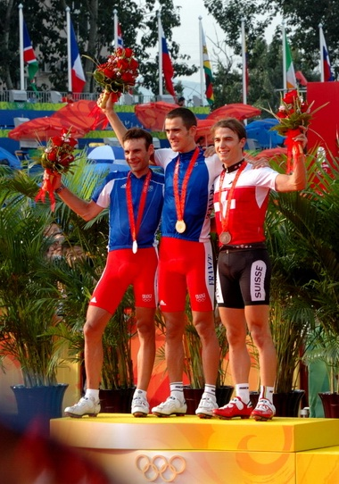 Julien Absalon, French gold medalist, Jean-Christophe Péraud, French silver medalist and Nino Schurter, Swiss bronze medalist.